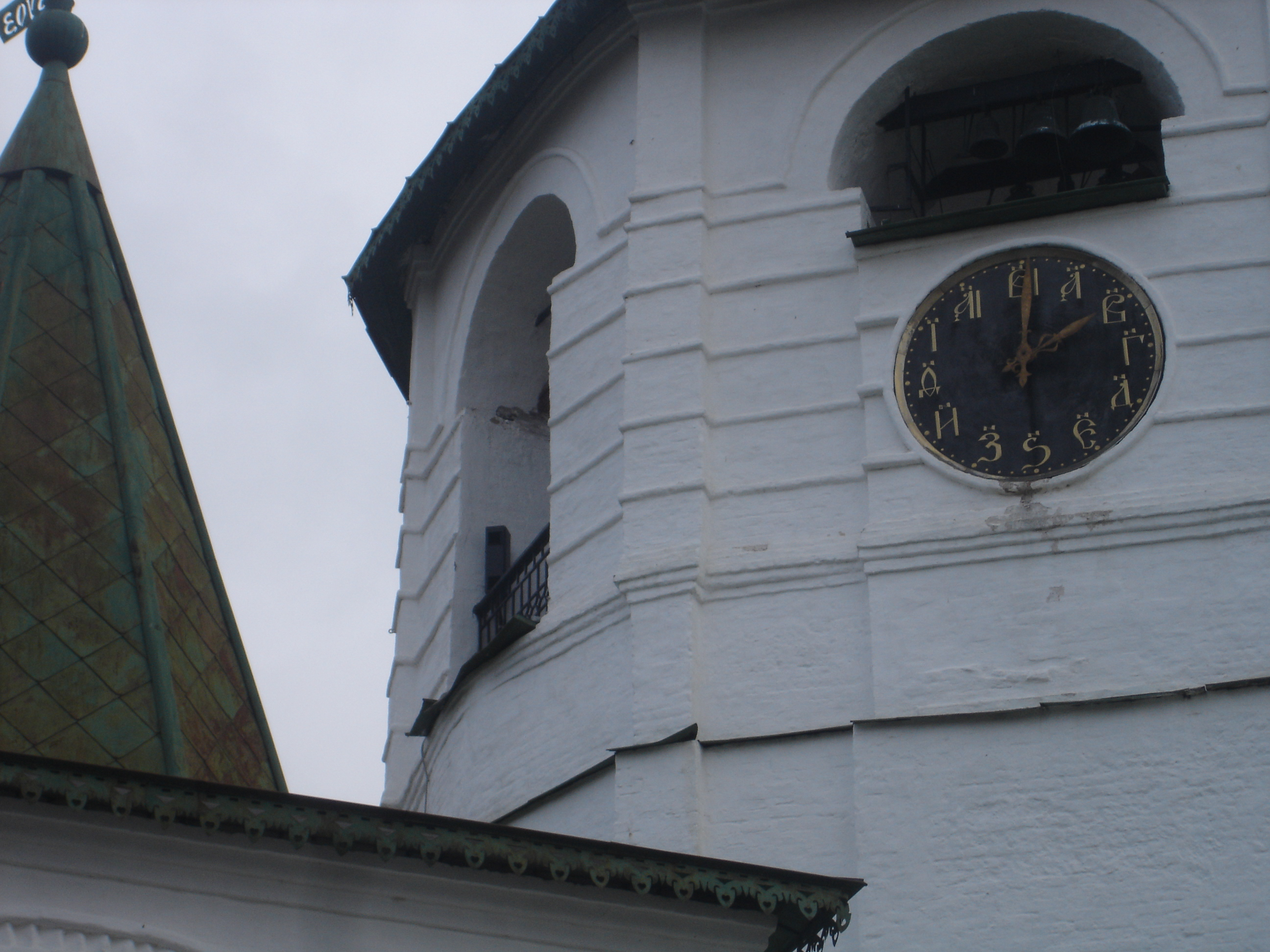 Tower Clock in Suzdal